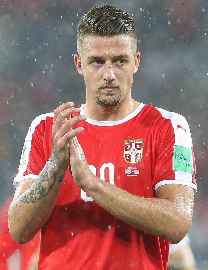 Sergej Milinković-Savić